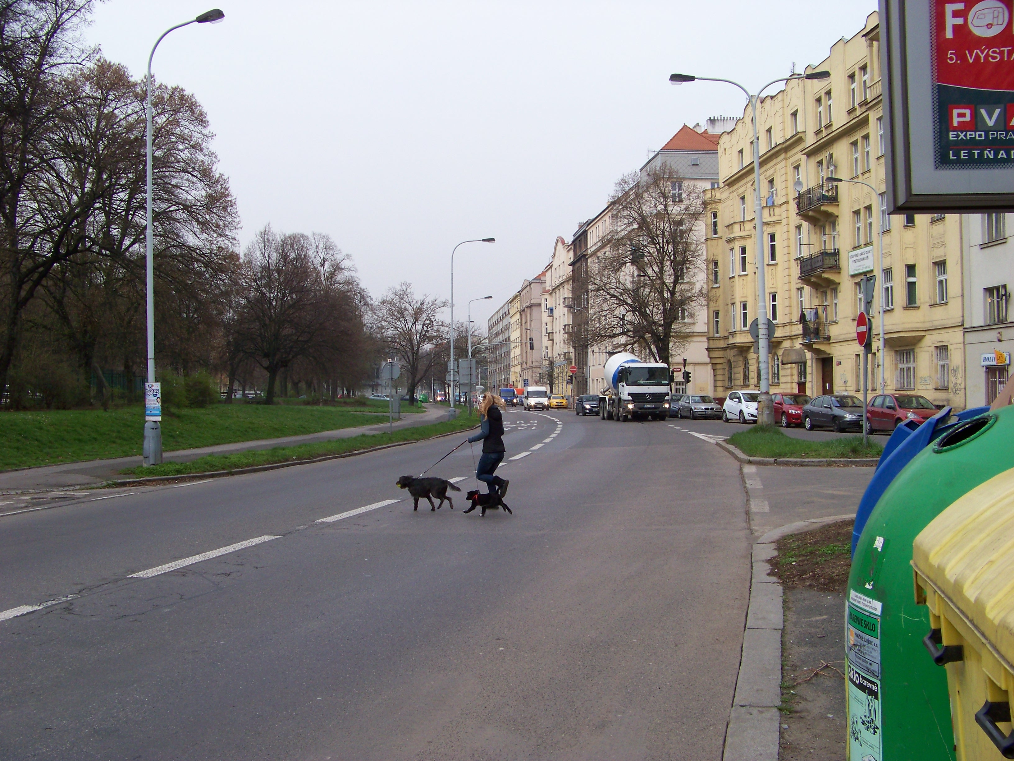 Prague-Košíře, Czech Republic. Vrchlického street.